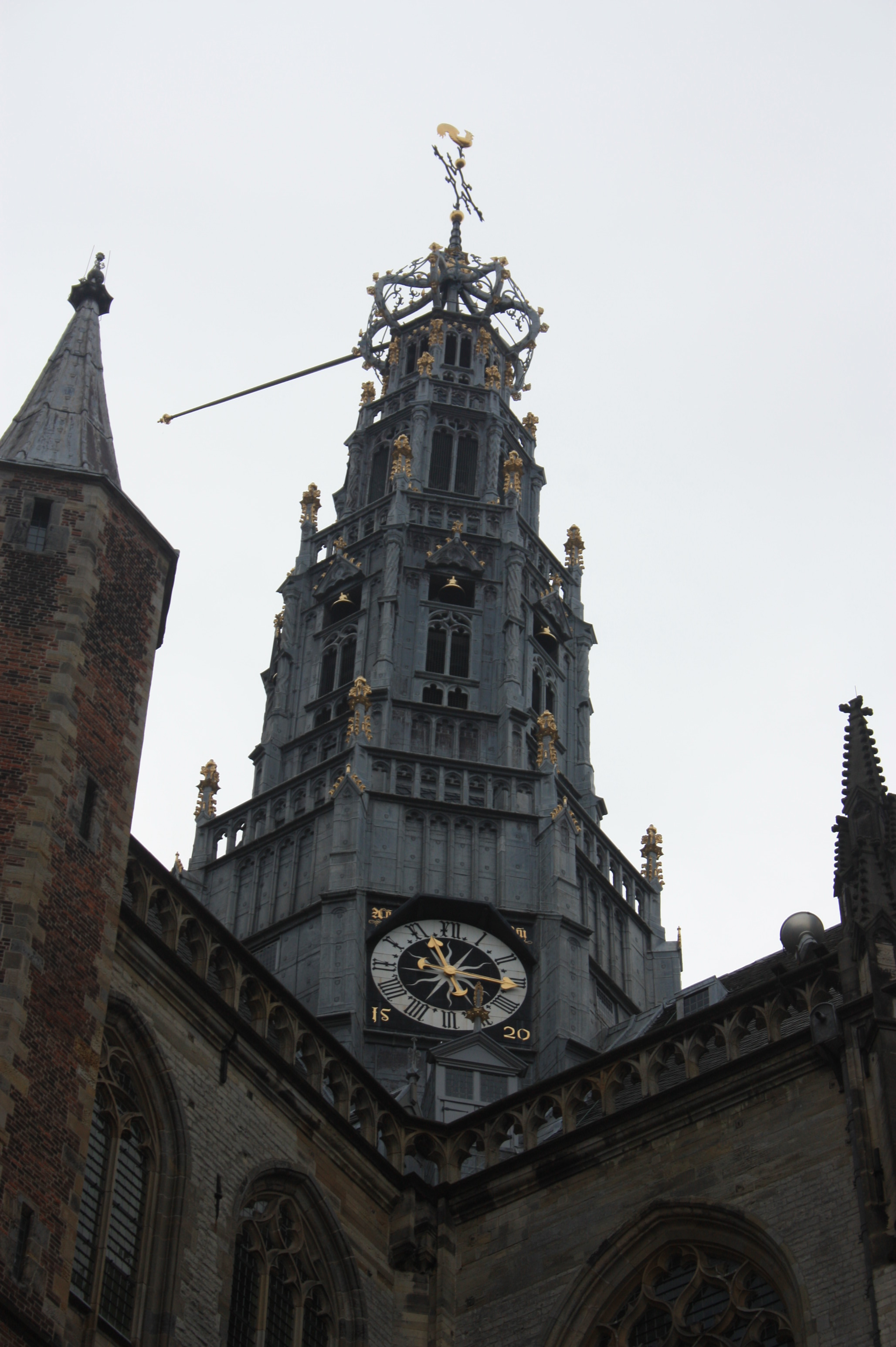 The ornate central tower, Grote Kerk, Haarlem